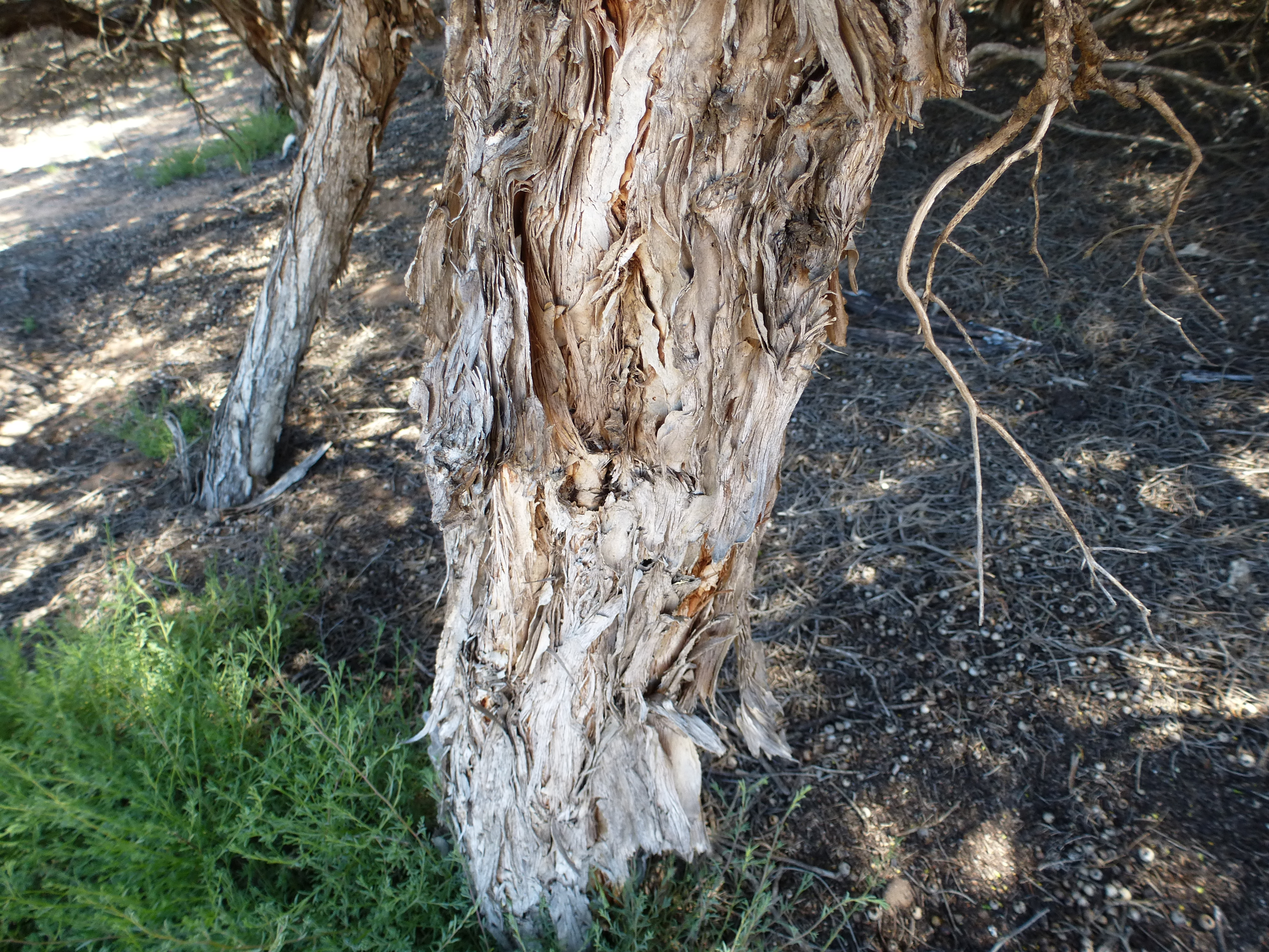 Melaleuca cardiophylla growing on the coast near Kalbarri